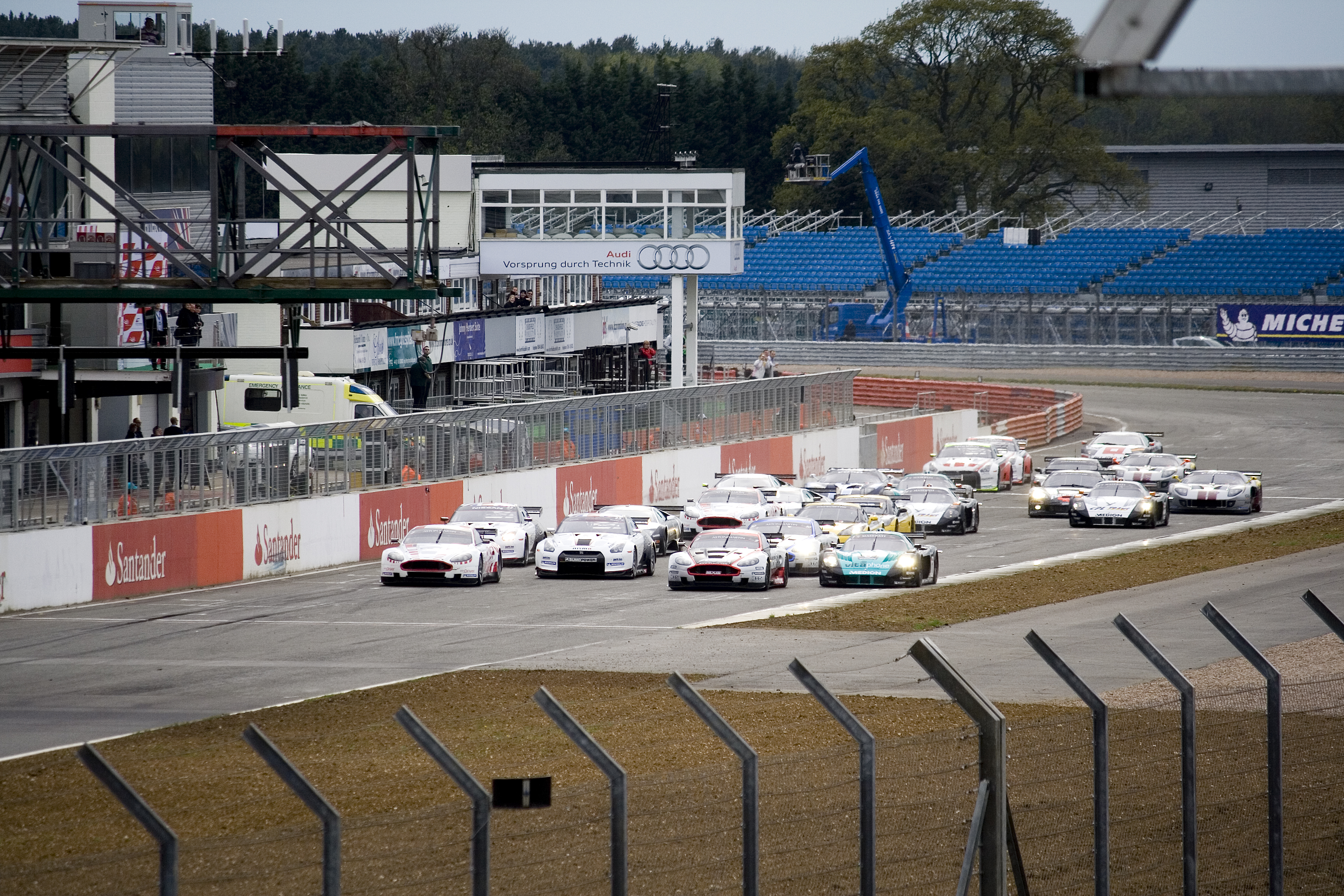 FIA GT1 Qualifying Race - Aston, Chevrolet, Maserati, Ford, Nissan and Lamborghini prepare to fight it out.